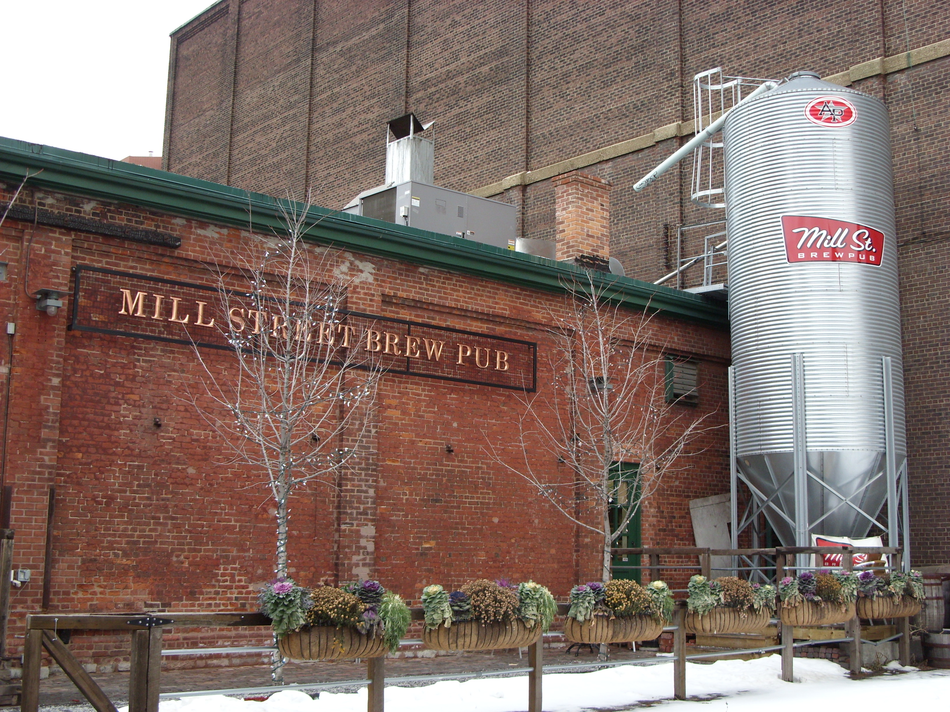 The back of Mill Street Brewery Brew Pub, Distillery District, Toronto, Ontario, Canada. The Mill Street Brewery was named after its original location at 55 Mill Street in the historic Distillery District, the former industrial complex occupied by spirits maker Gooderham and Worts. In early 2006, all large-scale brewing was moved to a bigger facility in Scarborough, Ontario, and the Distillery District location reopened in October, 2006 as a brewpub.